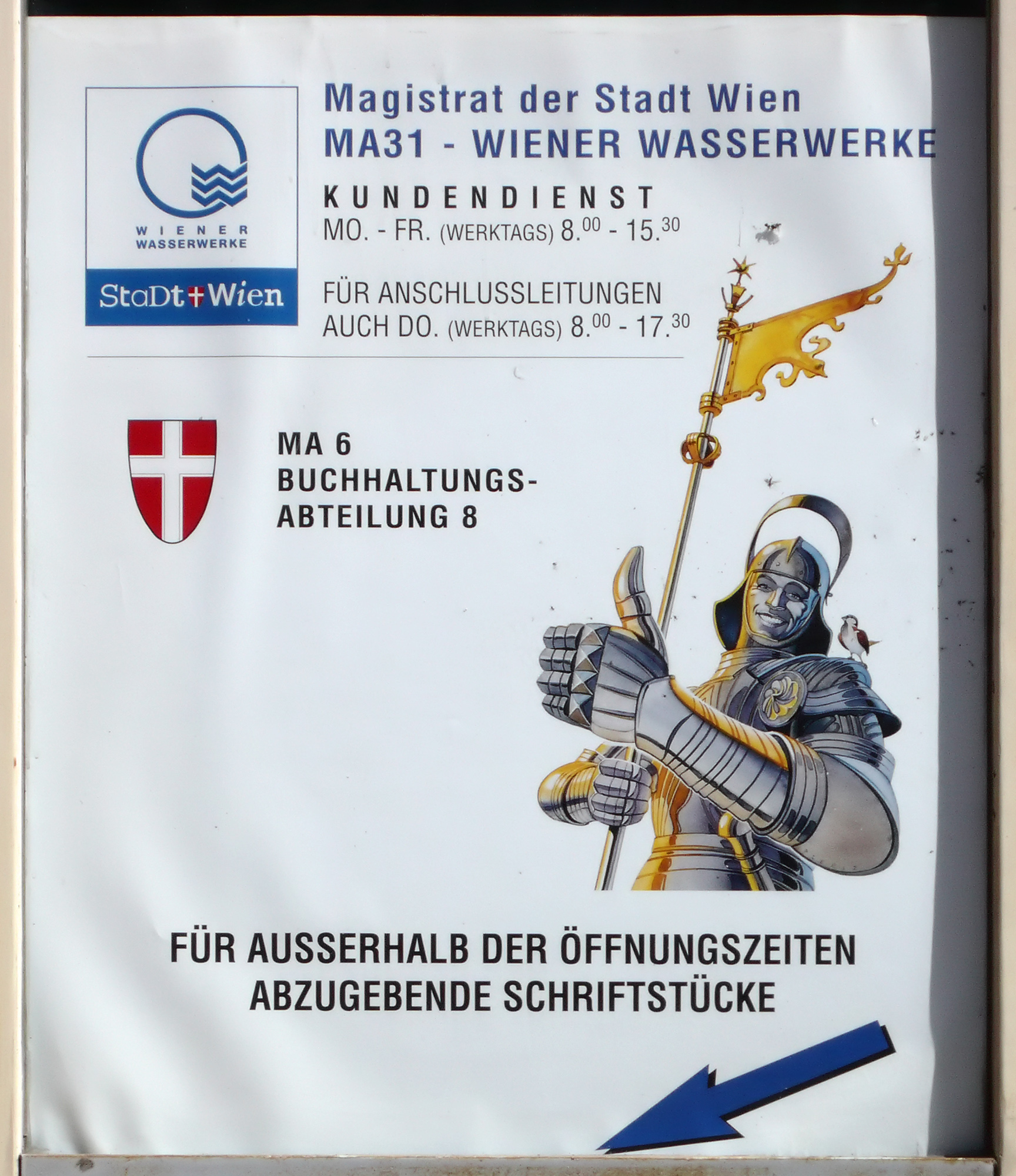 Amtshaus Grabnergasse in Vienna Mariahilf